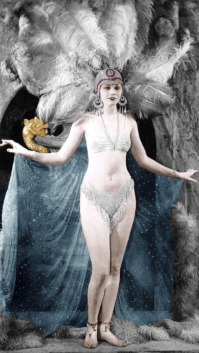 Lilyan Tashman Ziegfeld girl, Ziegfeld Follies of 1916 (or 1917), Broadway - publicity still